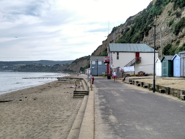 The Sandown and Shanklin Independent Lifeboat Station